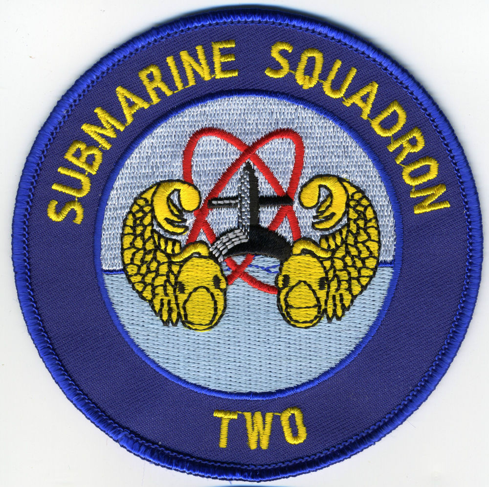 Squadron 2 Patch